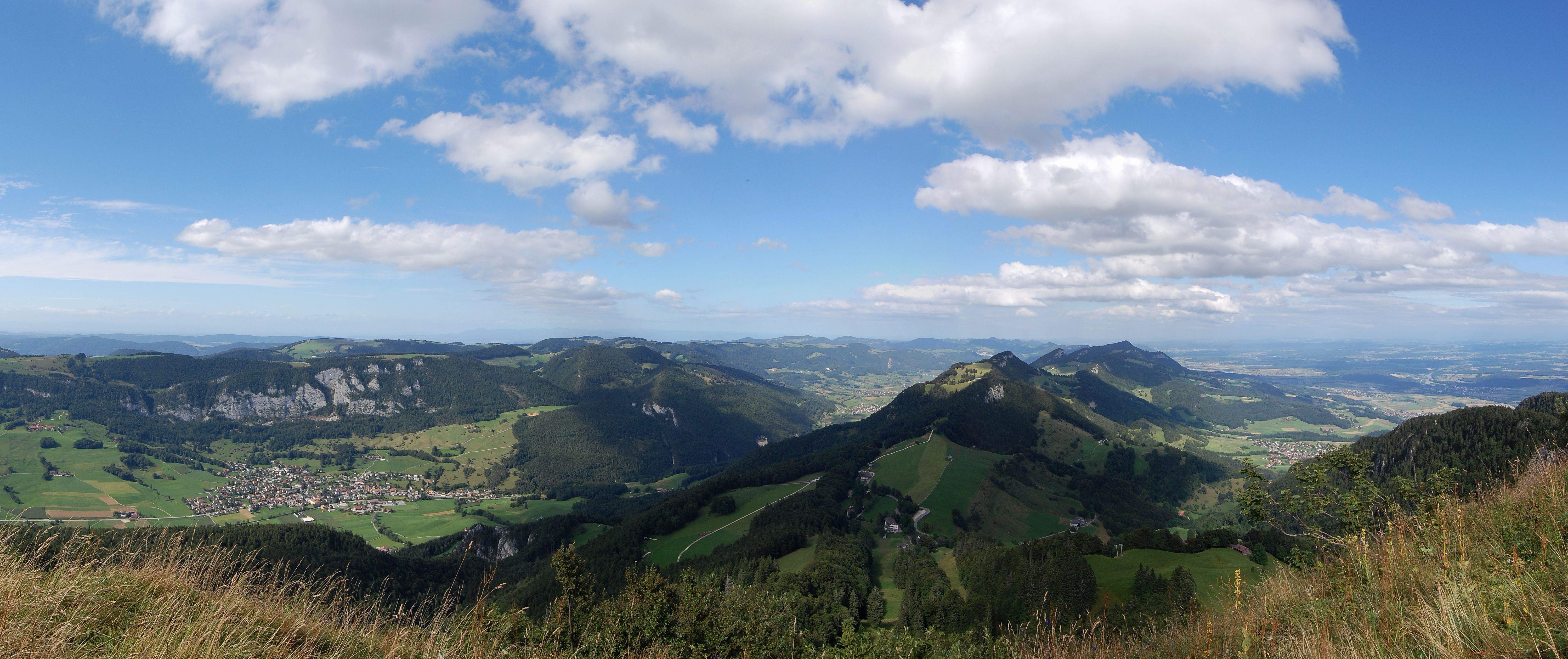 The picture, which is taken from the Röti (near Weissenstein), shows the Jura. On the left is the town Welschenrohr.